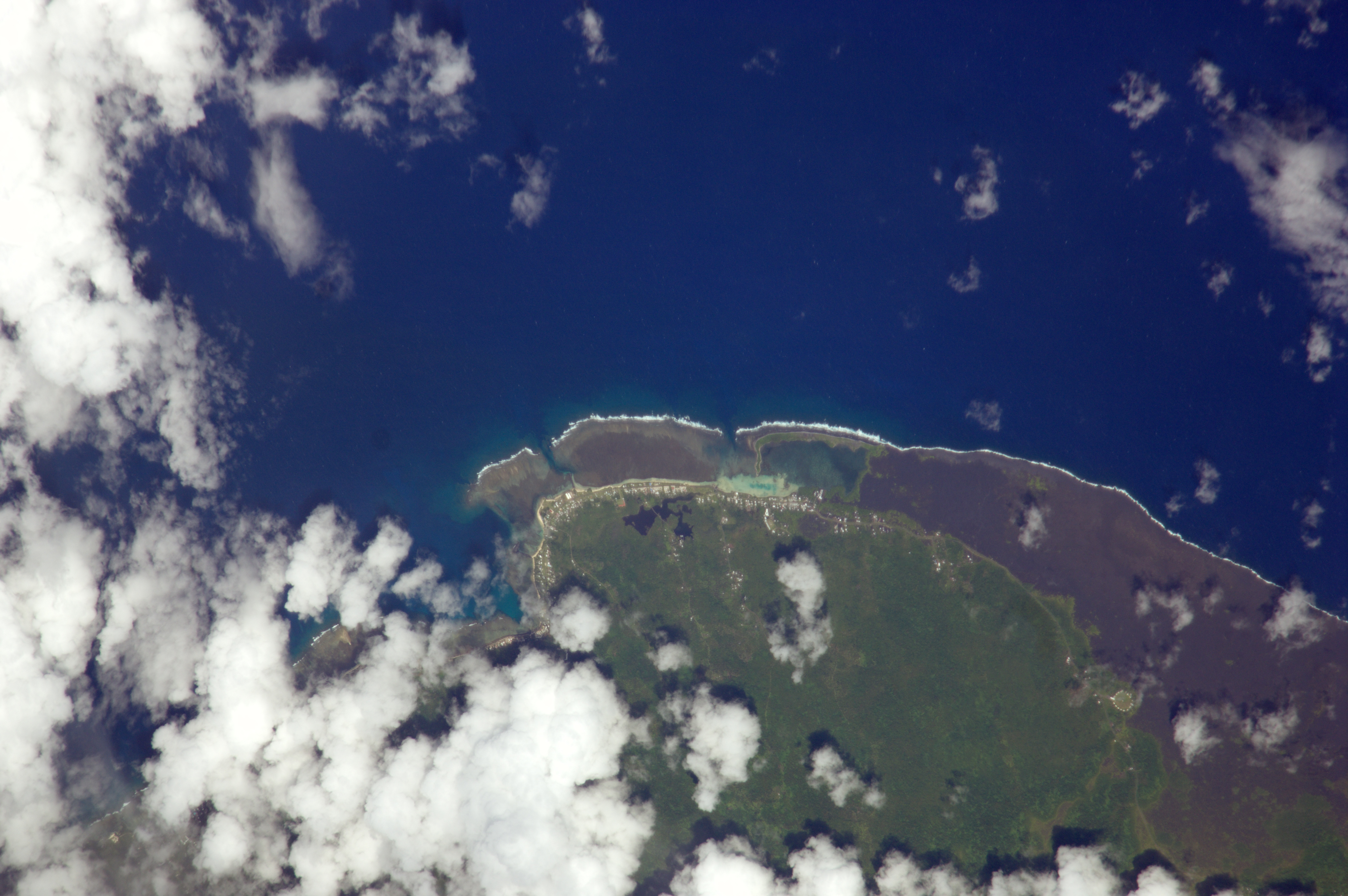 Savai'i Island, central north coast with lava fields in Gaga'emauga district, Saleaula, Mauga, Samalaeulu and Fagamalo, Matautu